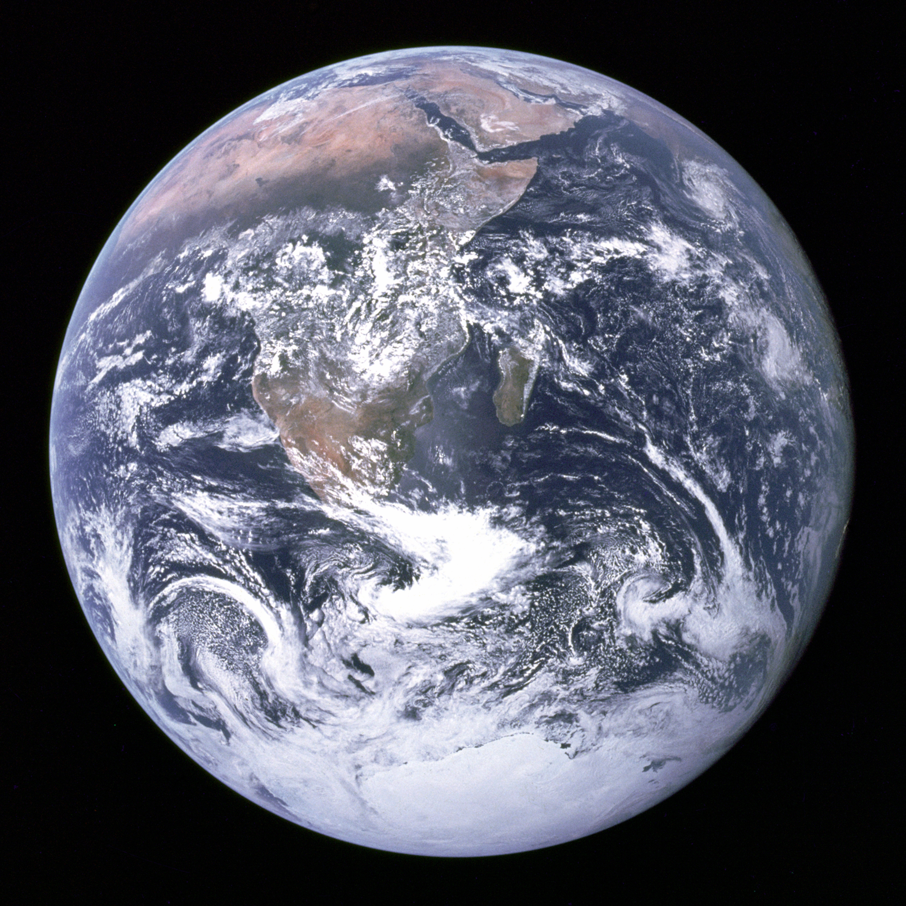 "The Blue Marble" is a famous photograph of the Earth taken on December 7, 1972, by the crew of the Apollo 17 spacecraft en route to the Moon at a distance of about 29,000 kilometers (18,000 statute miles). It shows Africa, Antarctica, and the Arabian Peninsula.